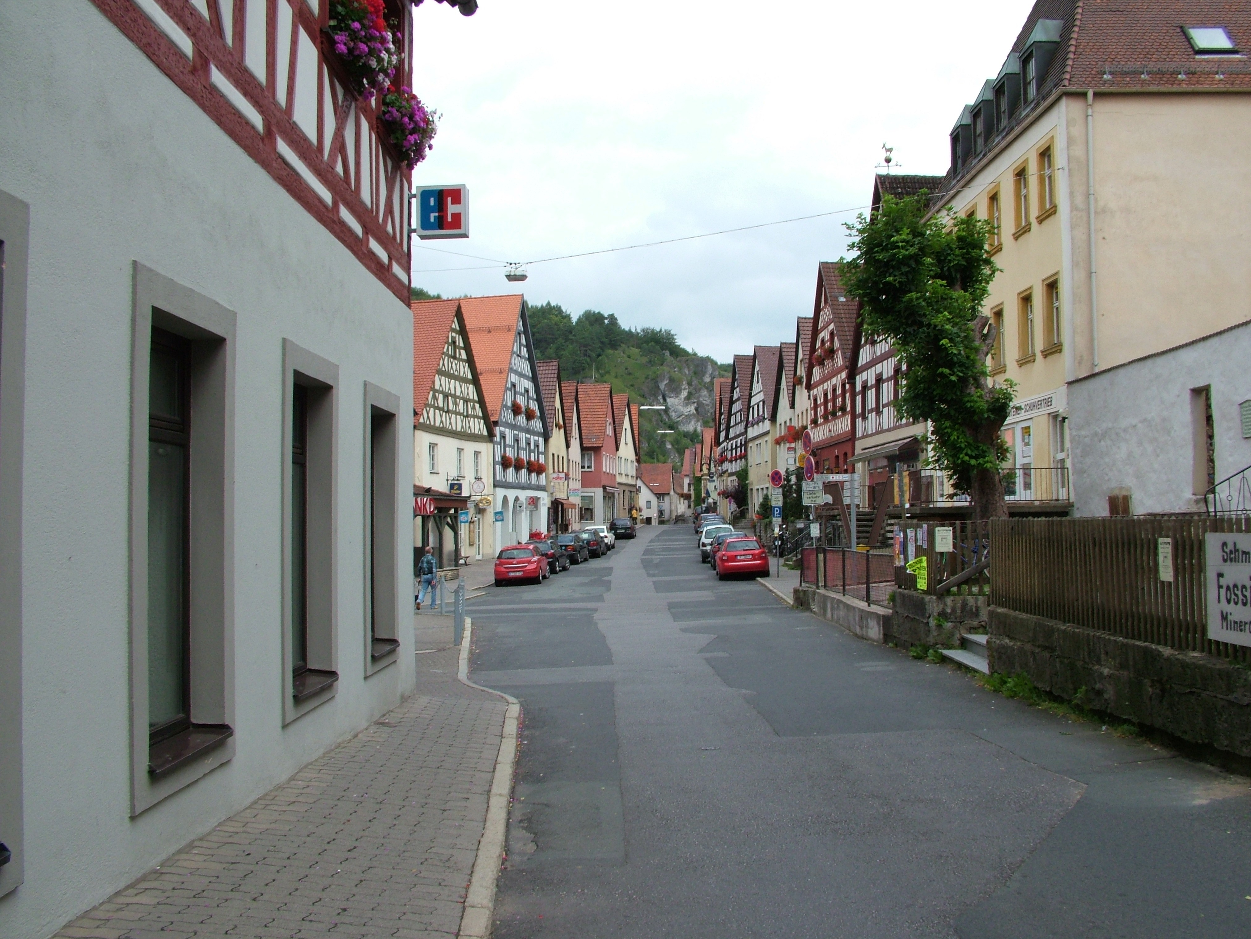 a street in Pottenstein Germany